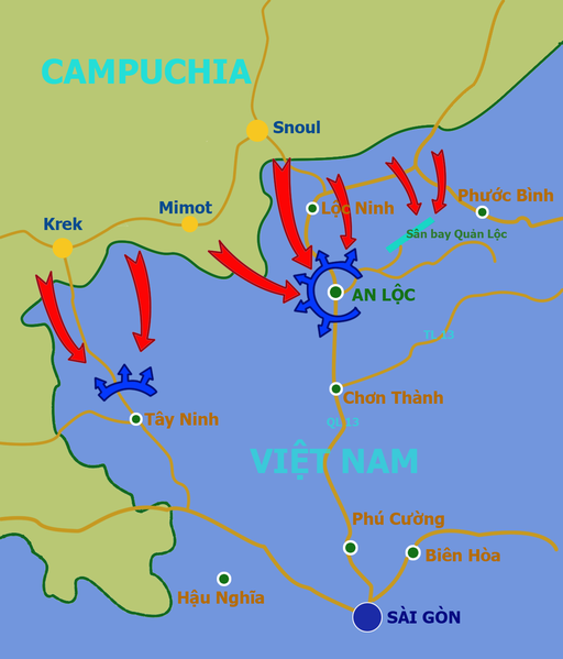 Map over the battle of An Loc in 1972